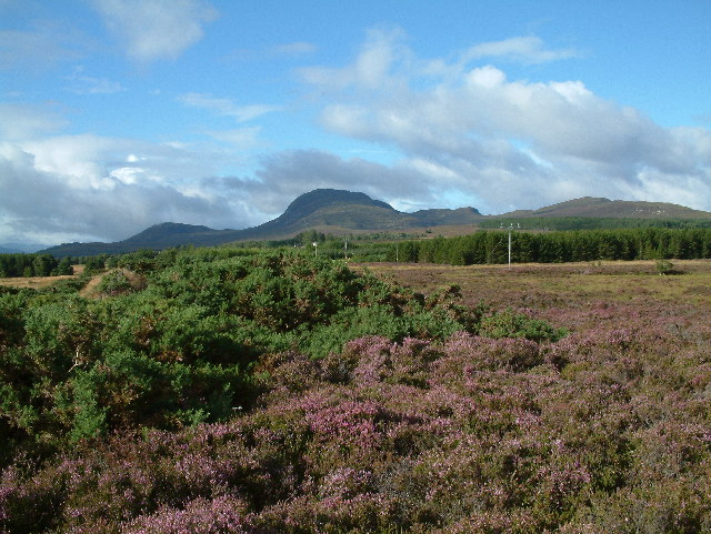 Meall Fuar-mhonaidh from the Bunloit road. Meall Fuar-mhonaidh, as you drive towards the end of the road and the small car park for those who decide to climb this rewarding Graham. From the top you can see the Moray Firth to the east and to the west, Ben Nevis and beyond, effectively the entire width of Scotland at this point. Well worth the short 3-4 hour hike!